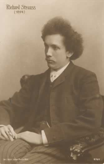 Strauss at 30.